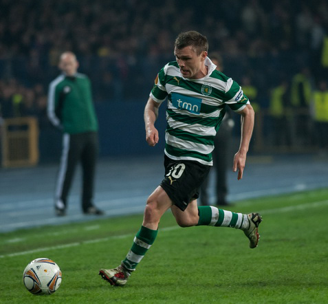 Marat Izmailov